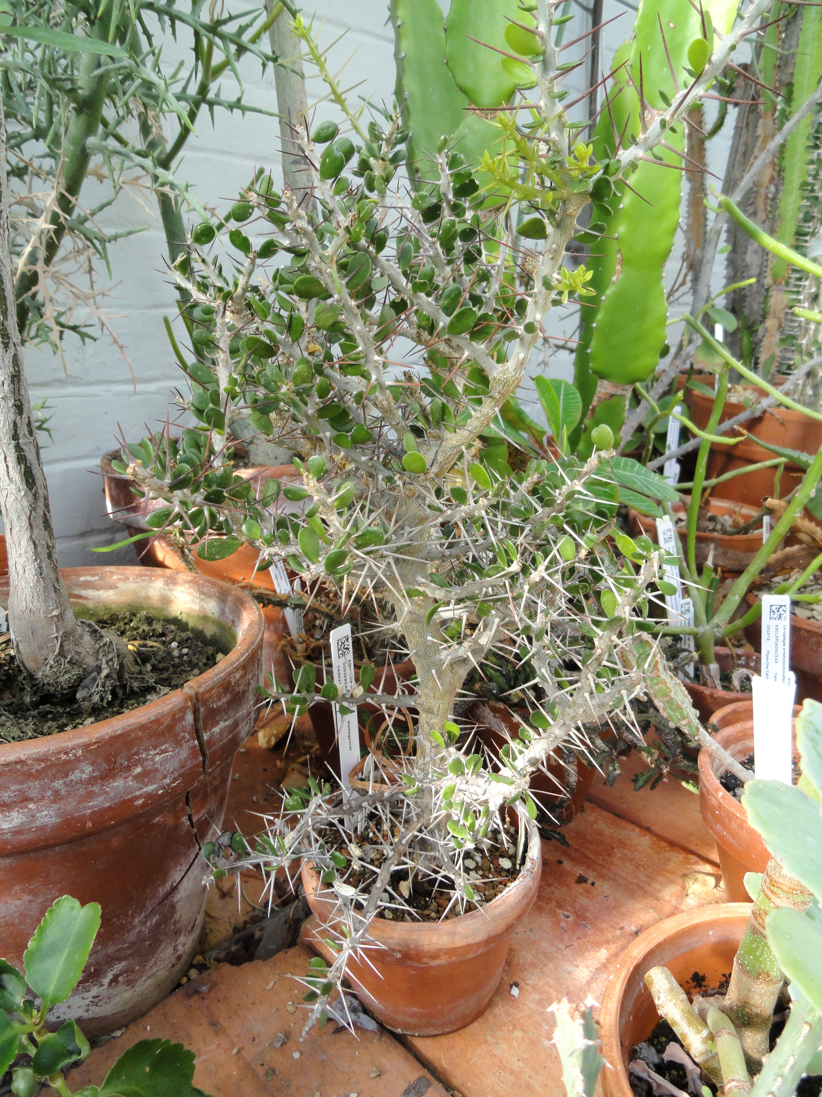 Botanical specimen in the Lyman Plant House, Smith College, Northampton, Massachusetts, USA.